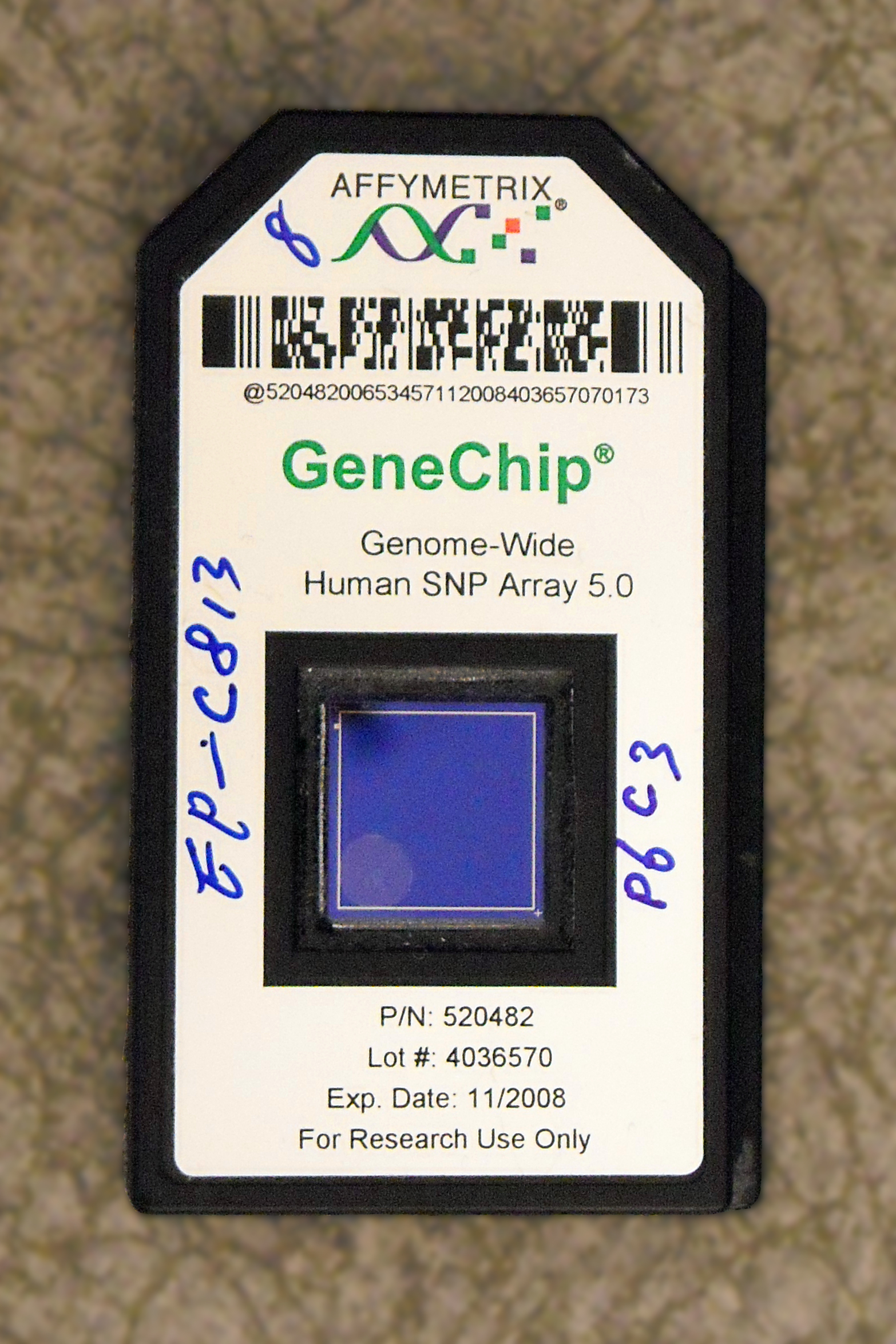 A microarray that can be used to assay half a million or so variable positions in the human genome. Now completely outmoded by the 6.0 array, which does over 900,000, plus another 946,000 or so non-variable parts of the genome to boot. Also shown - the ugly pattern on the guest chairs in my office, somewhat blurred to reduce the strain on your eyes.